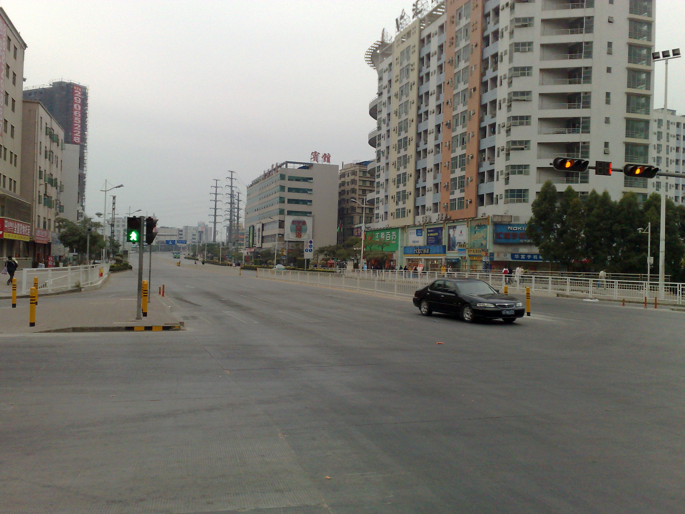 A street in Long Hua